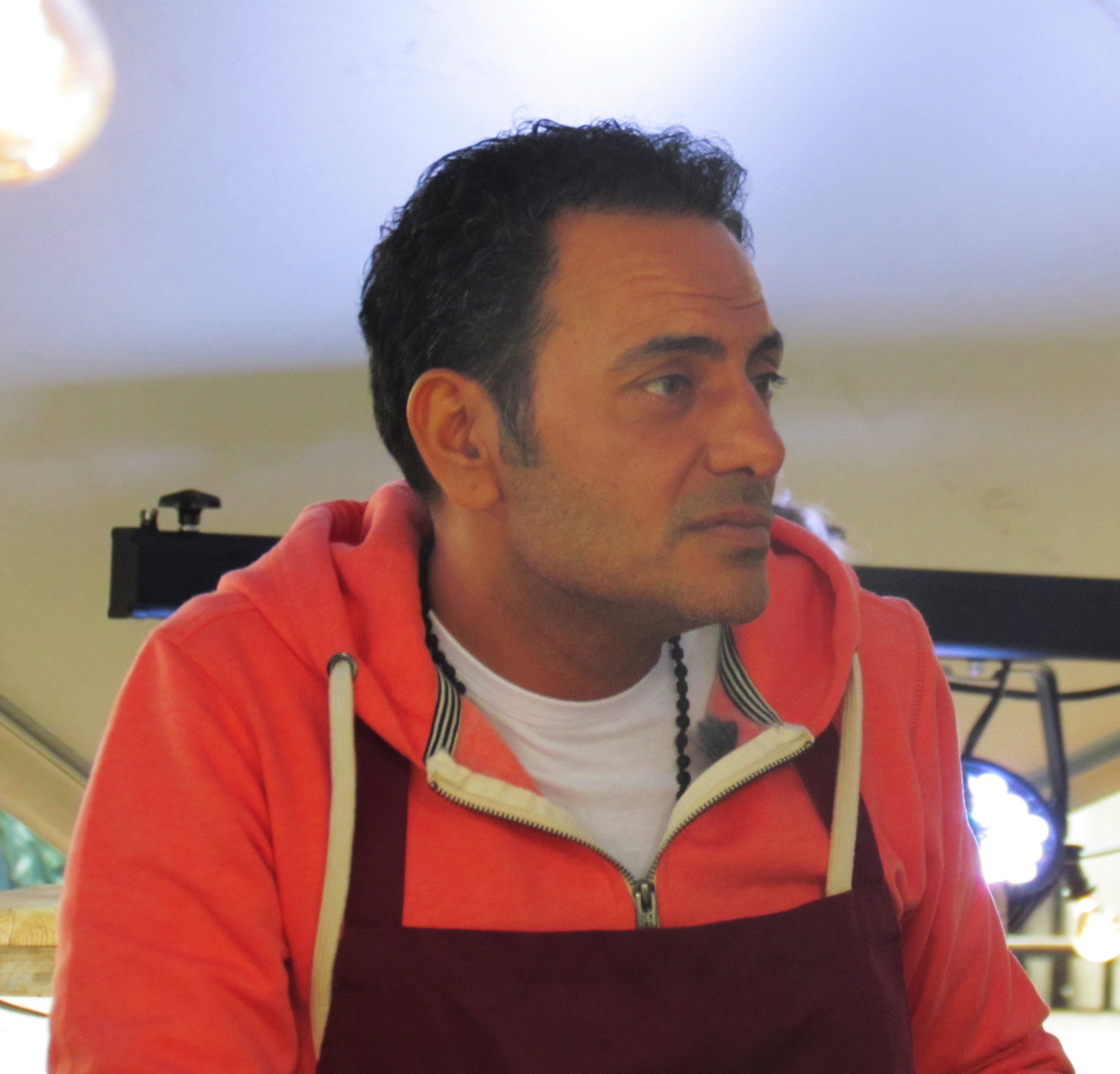 Palestinian-born Dutch television presenter Kefah Allush